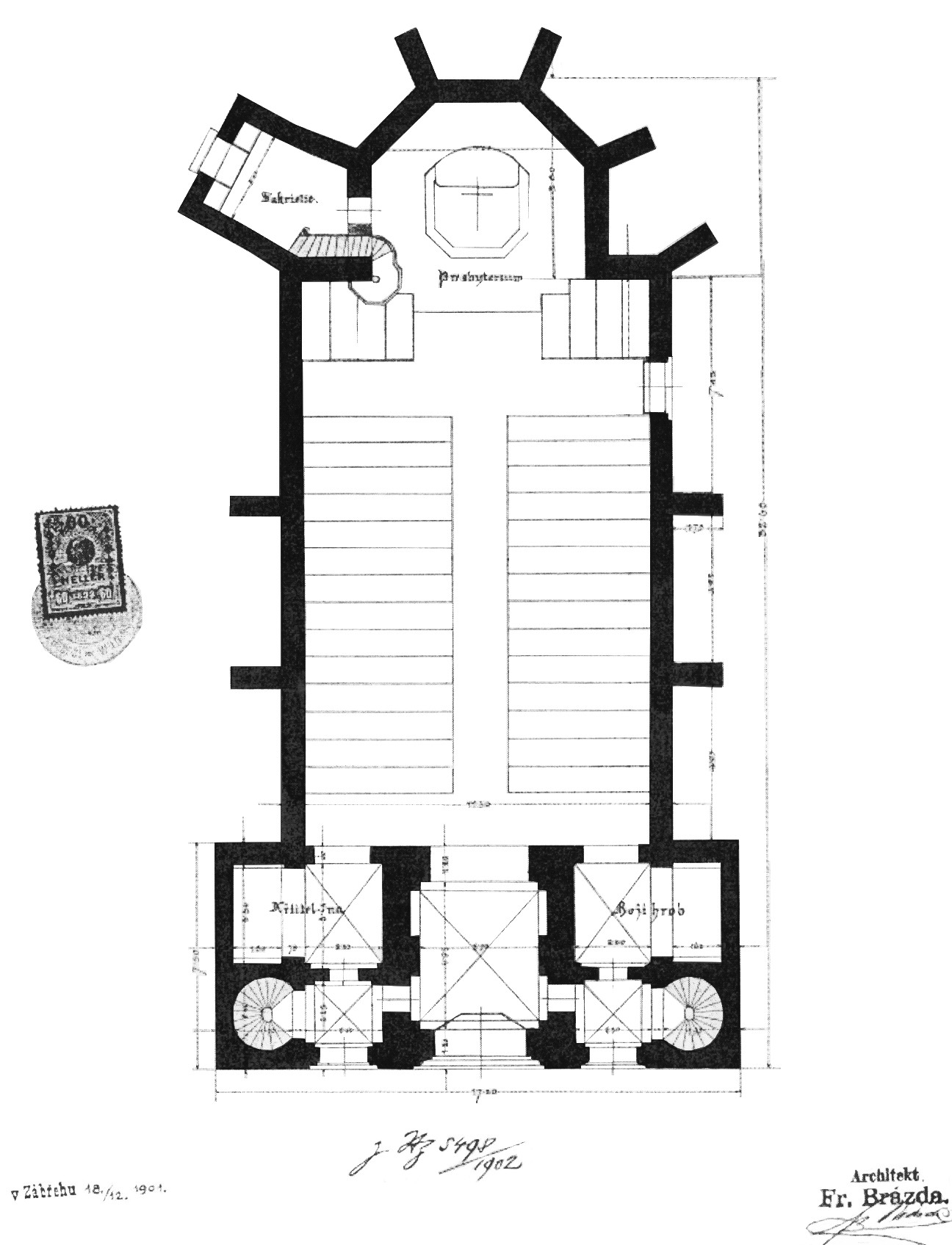 Floor projection of St. Procopius Church in Dlouha Trebova